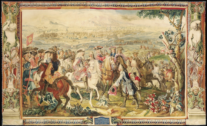 A FRENCH HISTORICAL TAPESTRY NANCY OR MALGRANGE, FIRST QUARTER 18TH CENTURY, PROBABLY AFTER CHARLES HERBEL AND JEAN BAPTISTE MARTIN. tapestry, depicting the 1702 victory of Archduke Joseph of Austria at Landau, is intriguingly made to fit into a series depicting The Victories of Duke Charles V of Lorraine against the Turks in the 1680s, woven for Leopold, Duke of Lorraine, between 1710 and 1718.